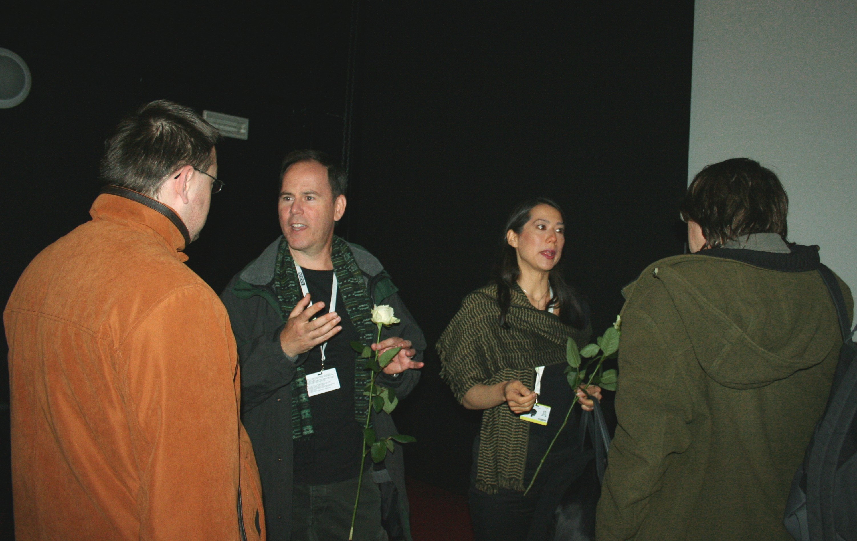 Edie & David Ichioka, Warsaw International FilmFest